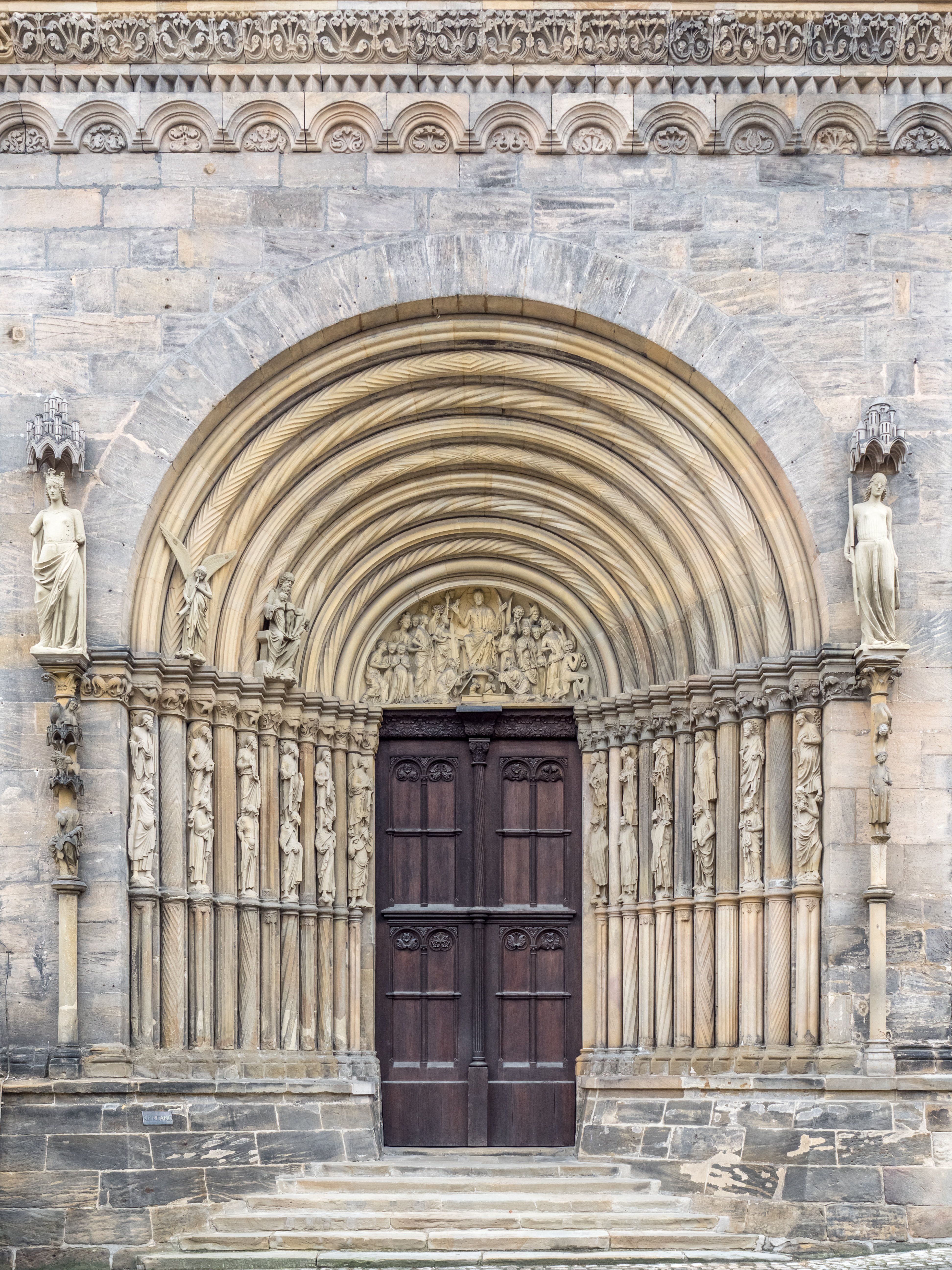 Fürstenportal gate to St. Peter and St. Georg Cathedral in Bamberg